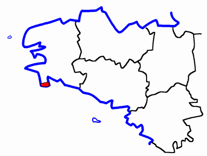 Map for localisazion of cantons of Bretagne region in France.